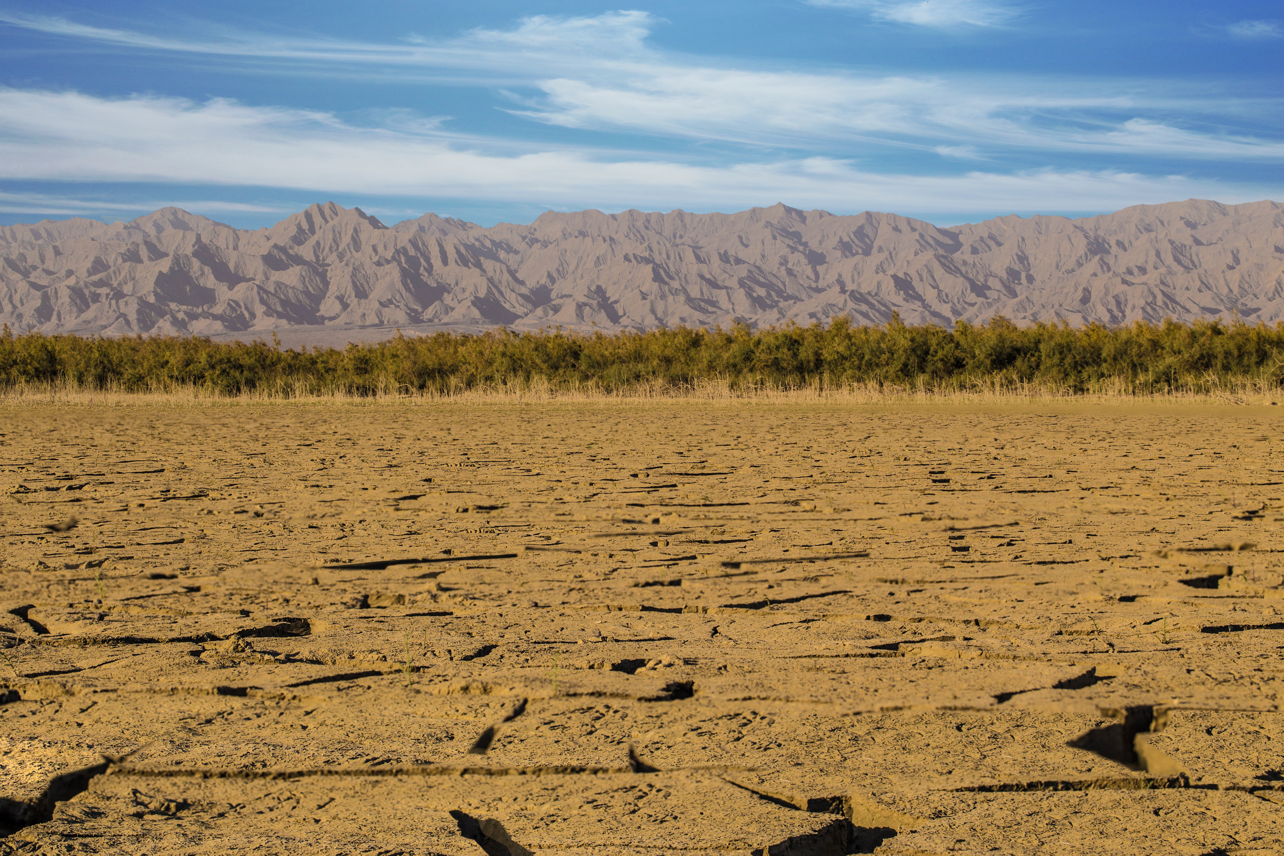 Dried Up Dam Water, Mirani Dam Turbat region, Balochistan.